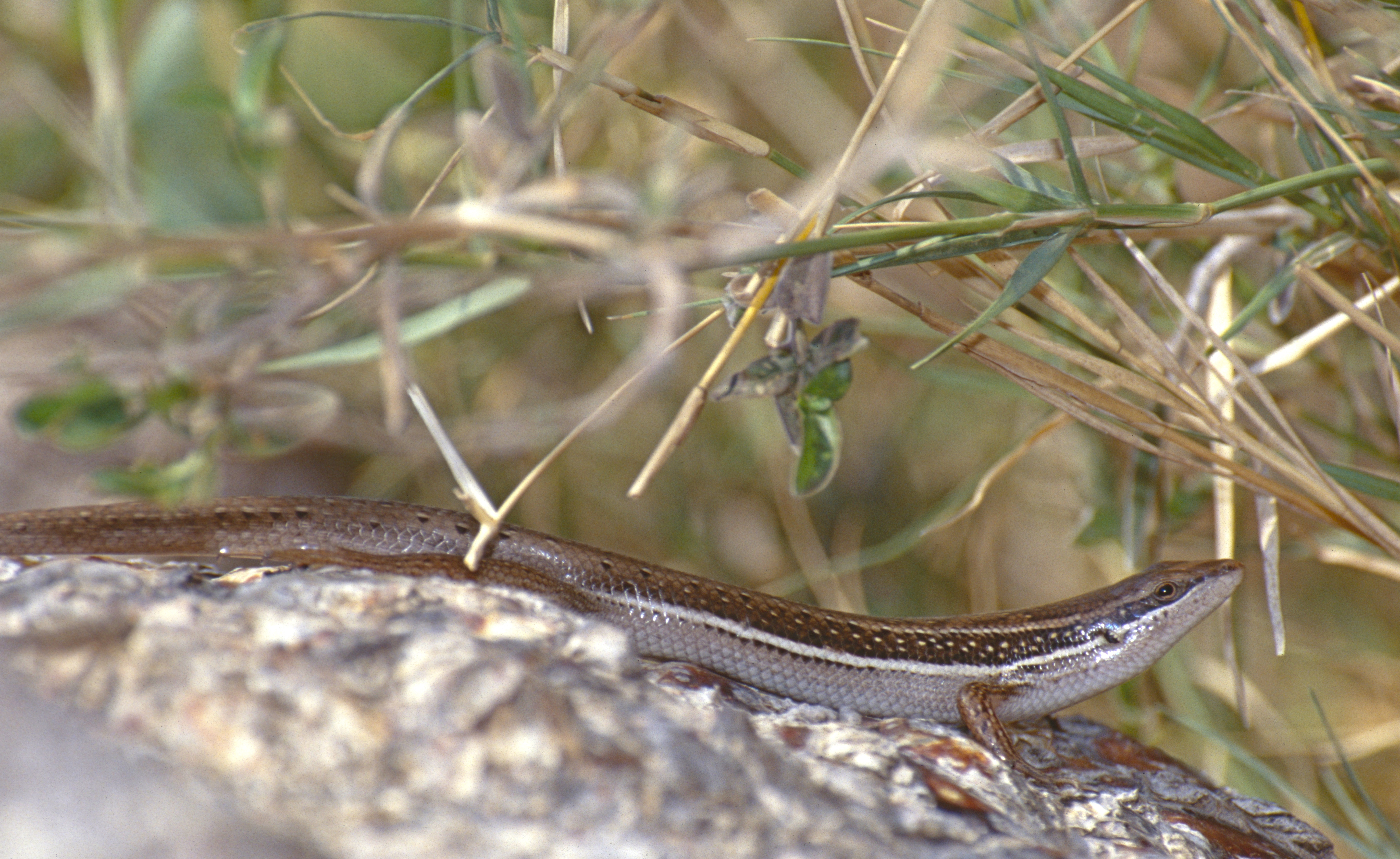 North of Morondava, MADAGASCAR Scanned Slide from 1998